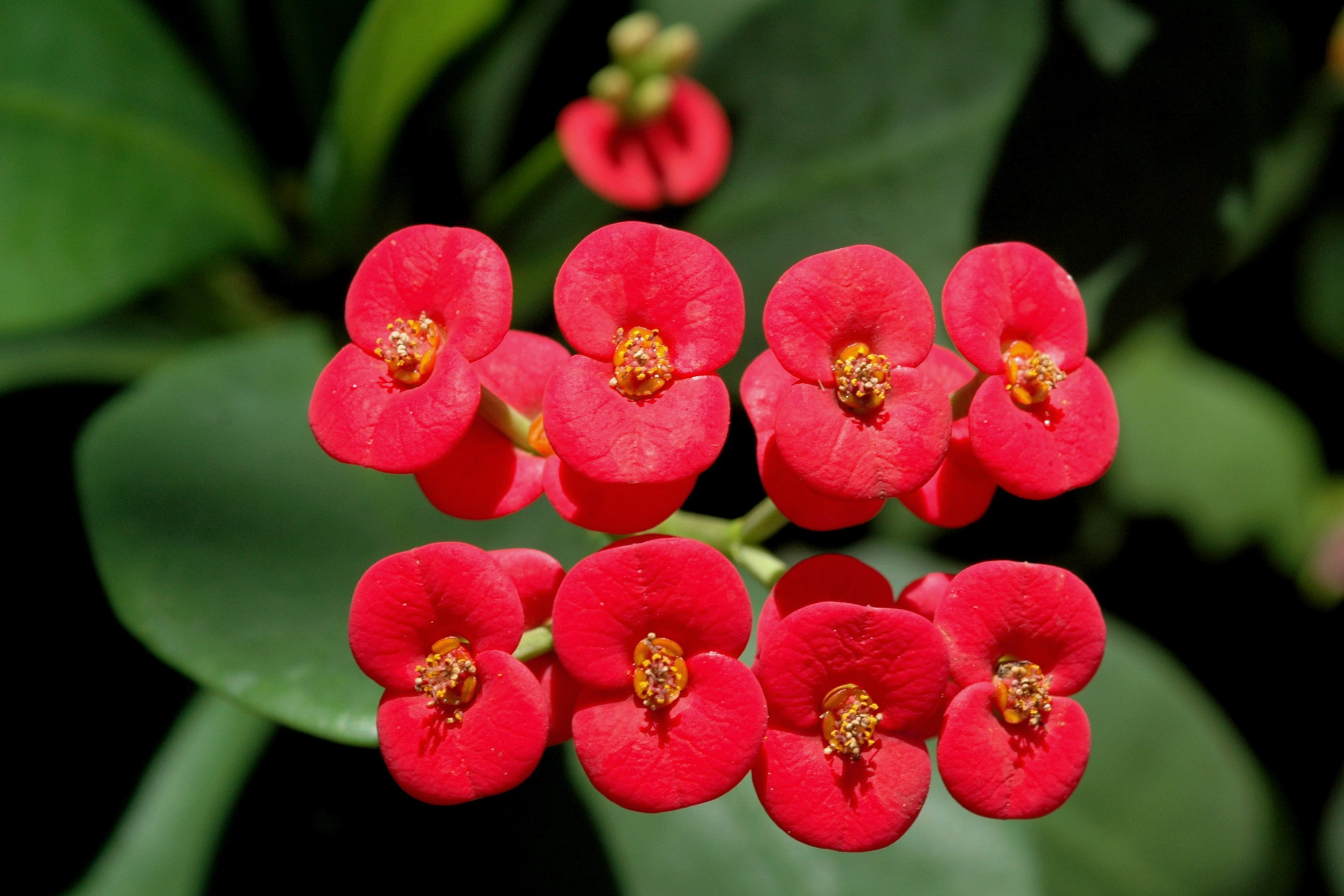 A close up of Euphorbia milii cyathia (not of the flowers!)